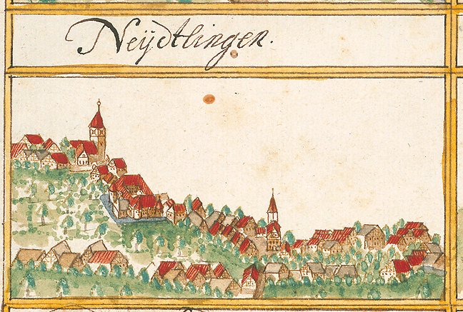 View of Neidlingen from the forest register books created by Andreas Kieser